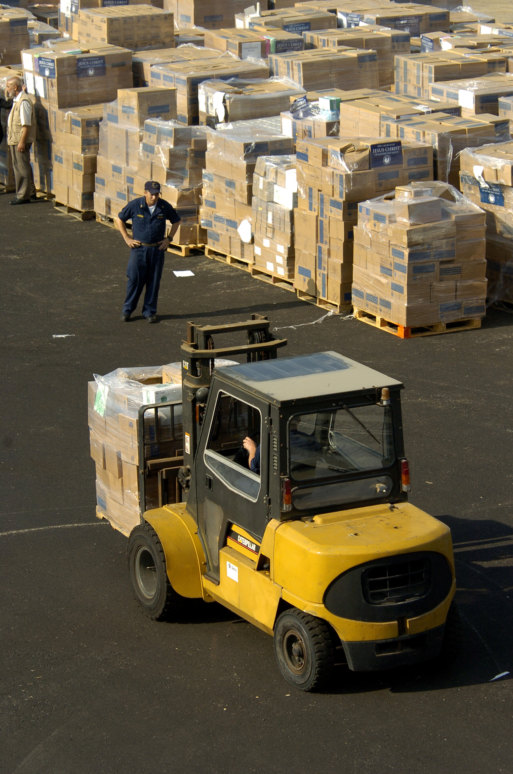 U.S. Navy sailors from the High Speed Vessel Two Swift (HSV 2) move more than 100 tons of humanitarian aid to the pier at Beirut, Lebanon during the 2006 Israel-Lebanon conflict. Over two million dollars worth of humanitarian aid was donated by The Church of Jesus Christ of Latter-day Saints, and in coordination with the Islamic Relief Organization, will be disbursed immediately to Lebanese citizens.